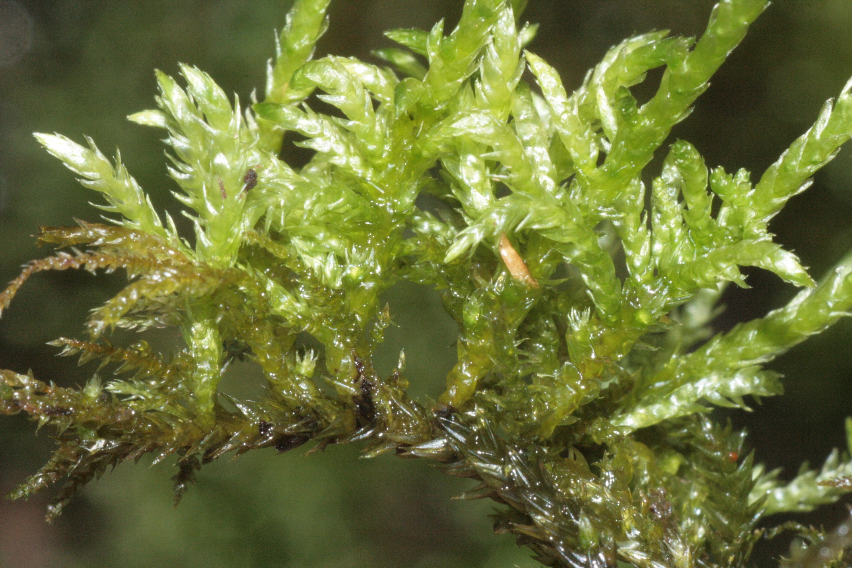 Brachythecium rivulare